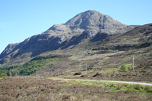 Ben Stack This shapely mountain (721 metres) dominates the view from the A838 from Laxford Bridge.